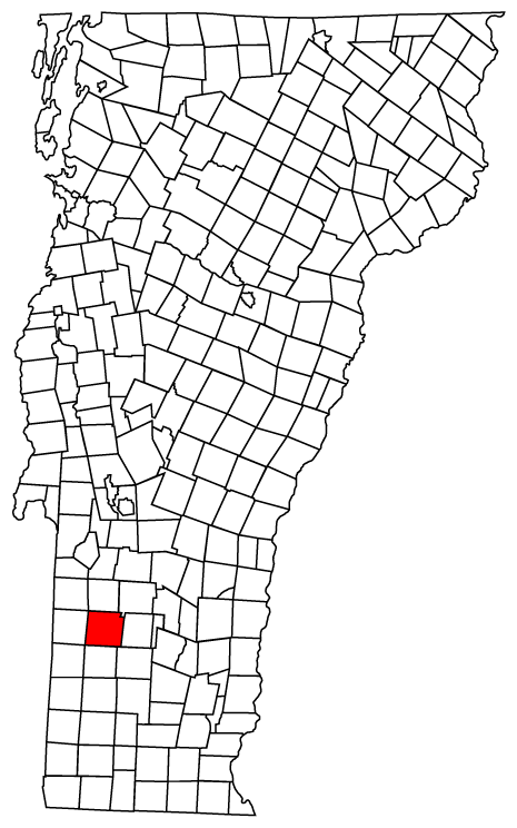 Description: Map of Vermont towns with Dorset highlighted Source: Map created by Jared C. Benedict on 26 March 2004. Copyright: © Jared C. Benedict.